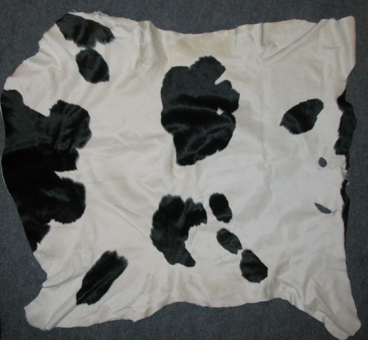 Spotted calf fur skin